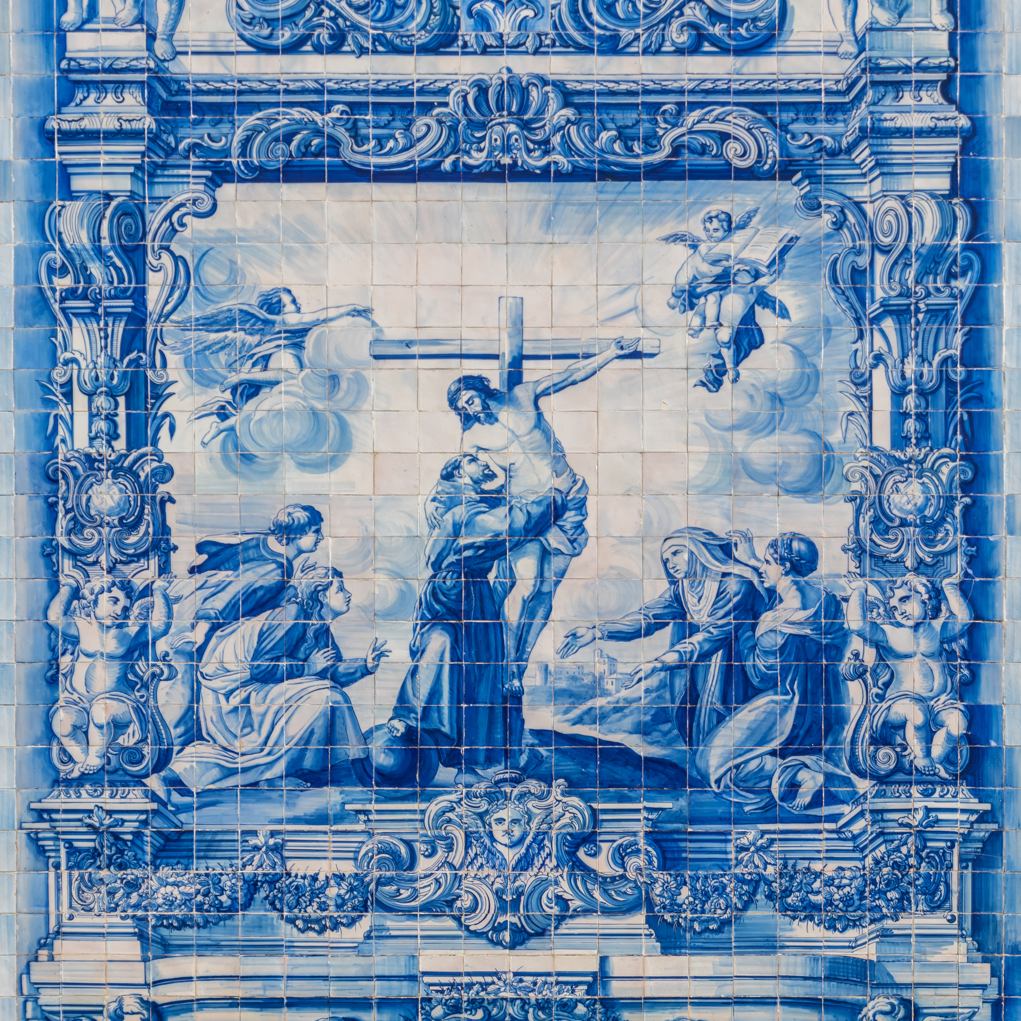 Azulejo facade of the Capela das Almas in Porto, Portugal This monument is classified as Imóvel de Interesse Público.